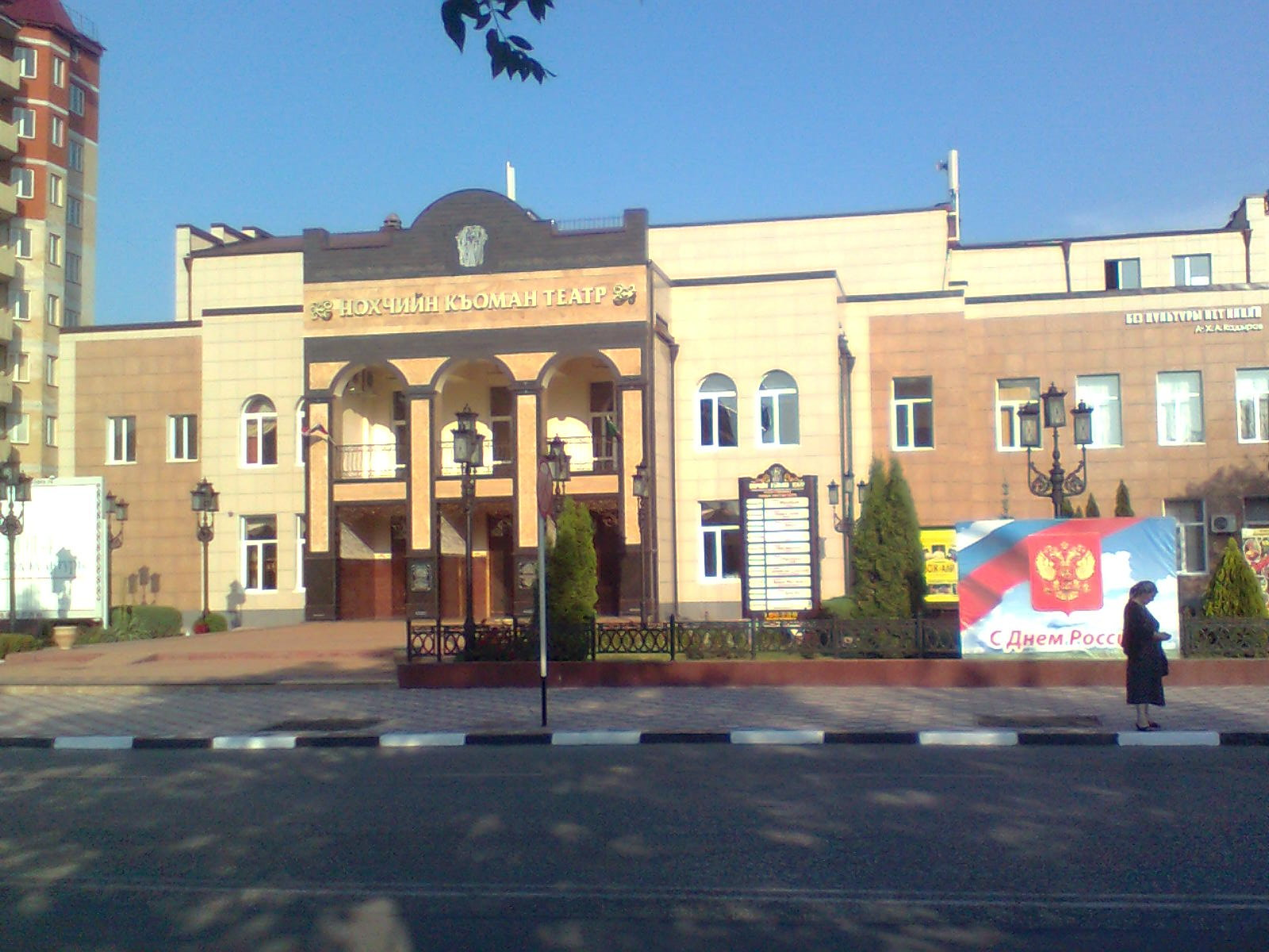 Chechen theater